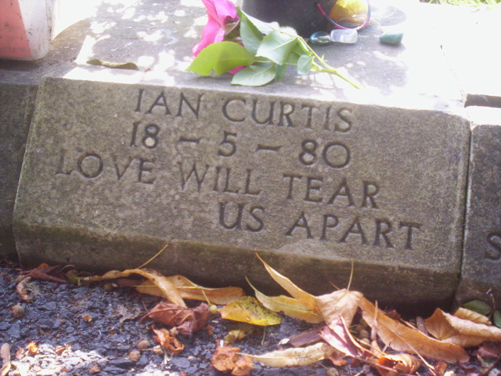 The memorial stone for Joy Division singer Ian Curtis in Macclesfield Cemetery.